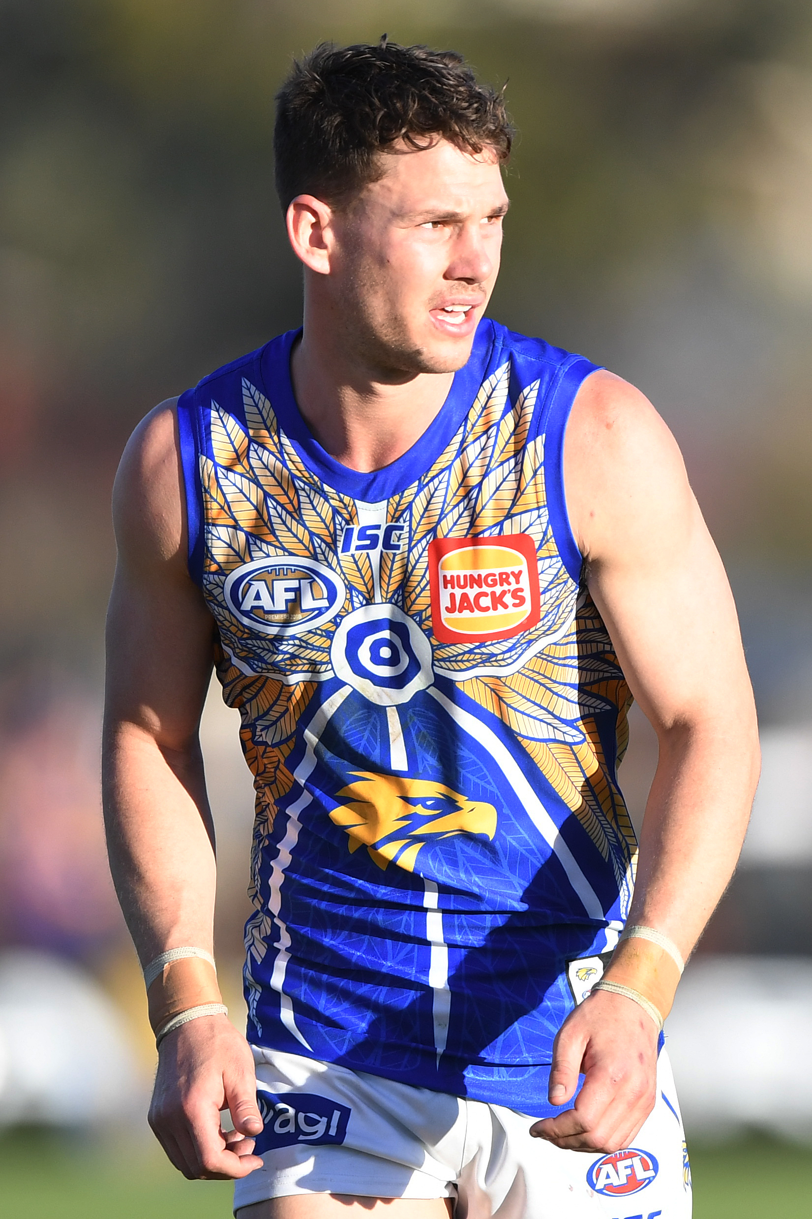 Jack Redden of West Coast during the 2019 AFL round 18 match between Melbourne and West Coast at Traeger Park on Sunday, 21 July 2019 in Alice Springs, Northern Territory.